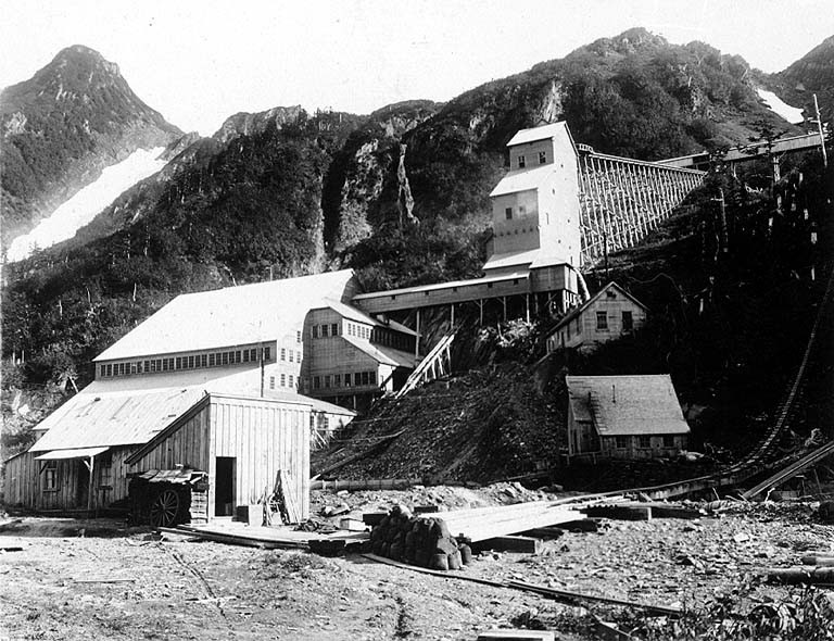 From John Cobb field notebook: Alaska-Perseverance Mine, Silver Bow Basin, Alaska. Aug 21, 1910 Subjects (LCTGM): Gold mining--Alaska--Silverbow Basin Subjects (LCSH): Alaska Perseverance Company; Gold mines and mining--Alaska--Silverbow Basin